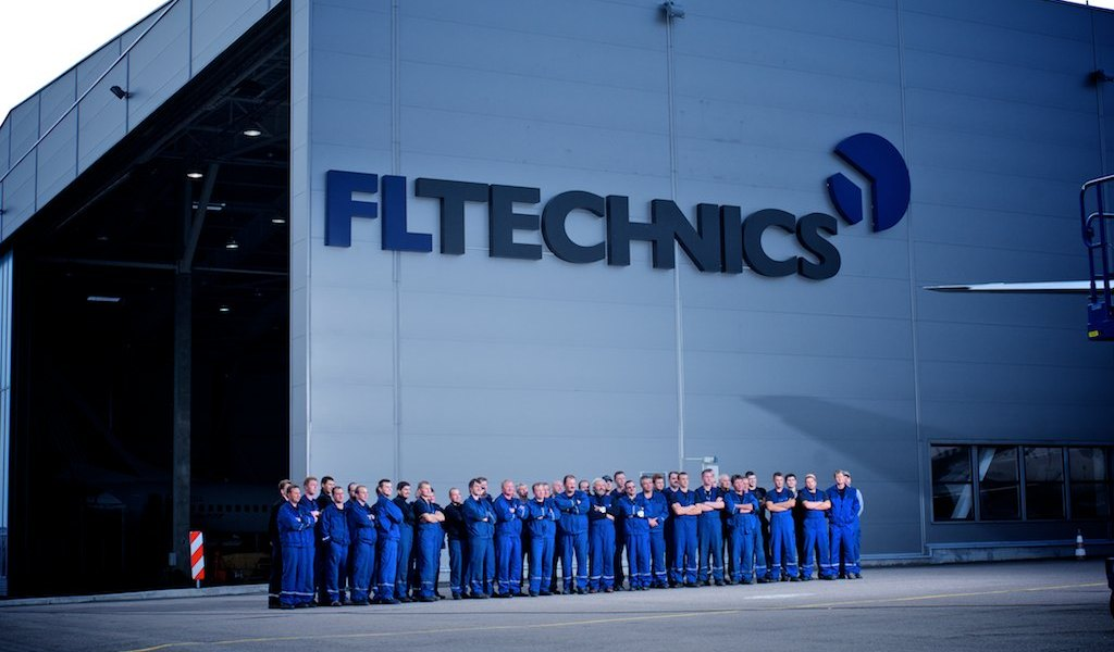 FL Technics technicians crew in front of the main FL Technics base in International Vilnius Airport